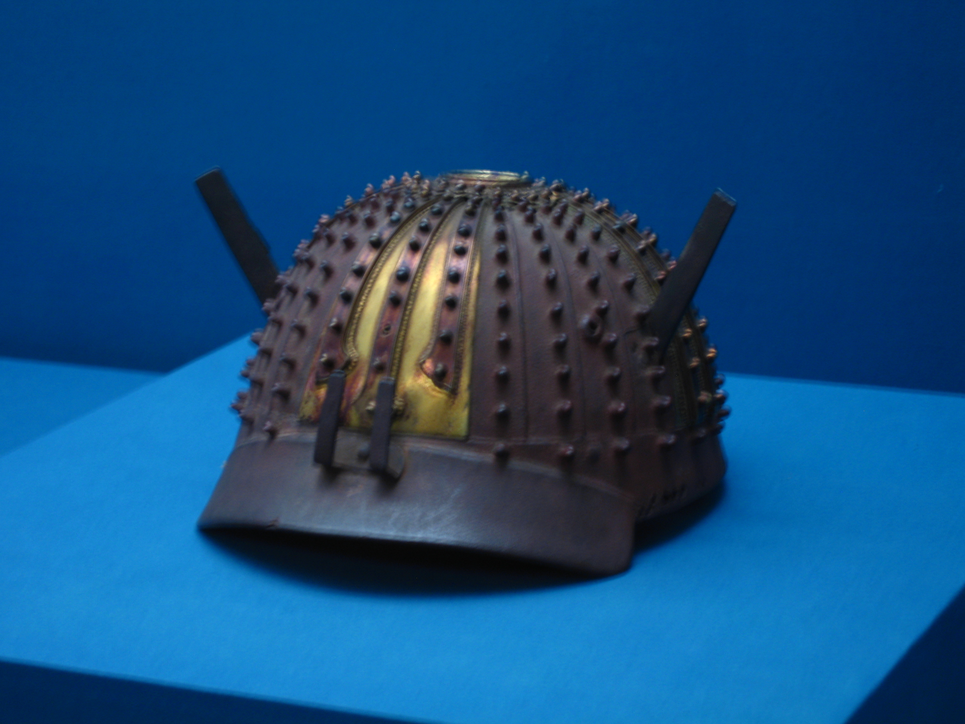 A hachi (helmet bowl) of 20-plates hoshi kabuto, made in 13th century which is modified in later period. One of collections of Tsutsukowake Shrine at Fukushima Prefecture displayed in Tokyo National Museum.